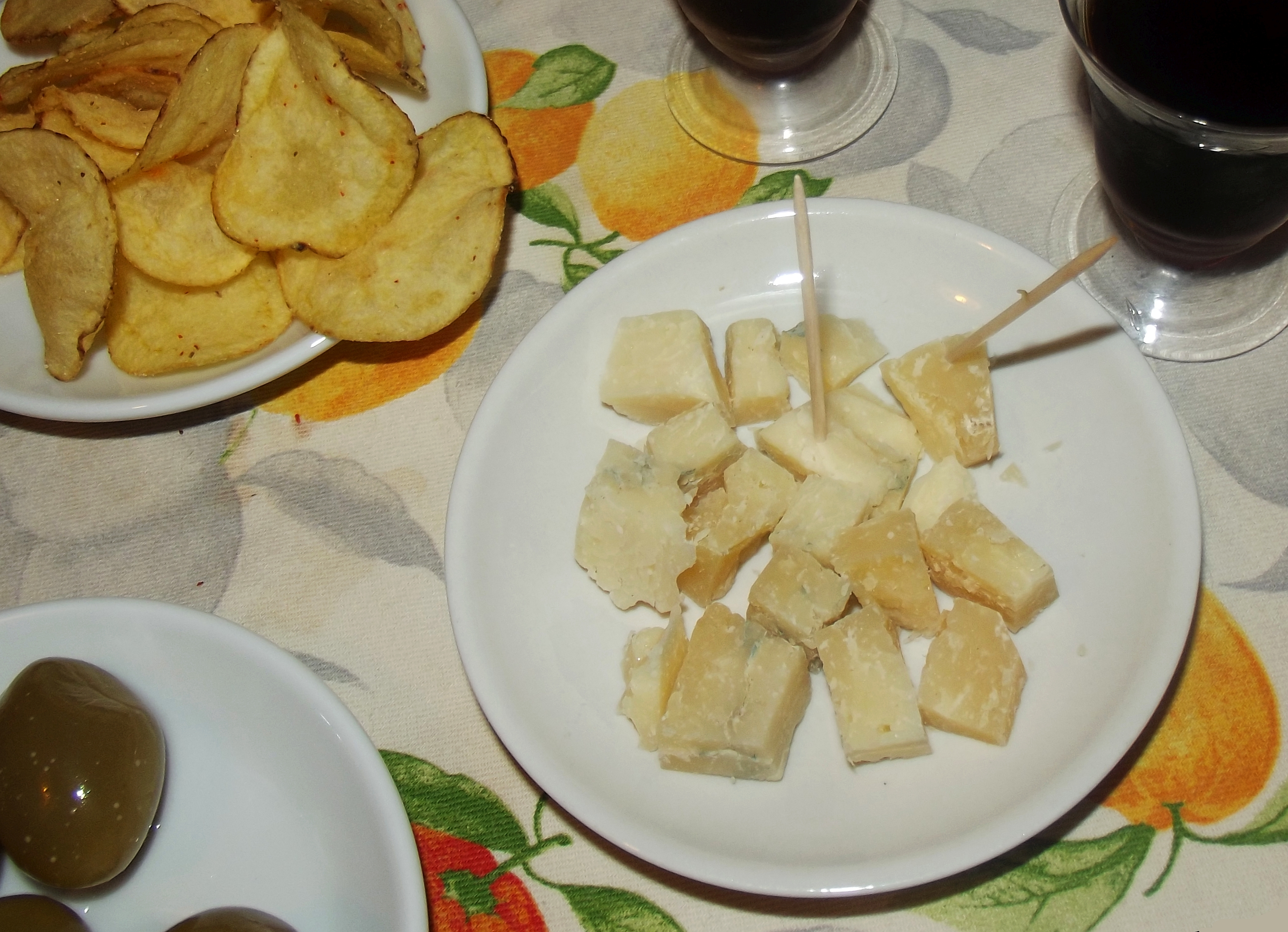 Toma del lait brusc in small cubes as appetizer